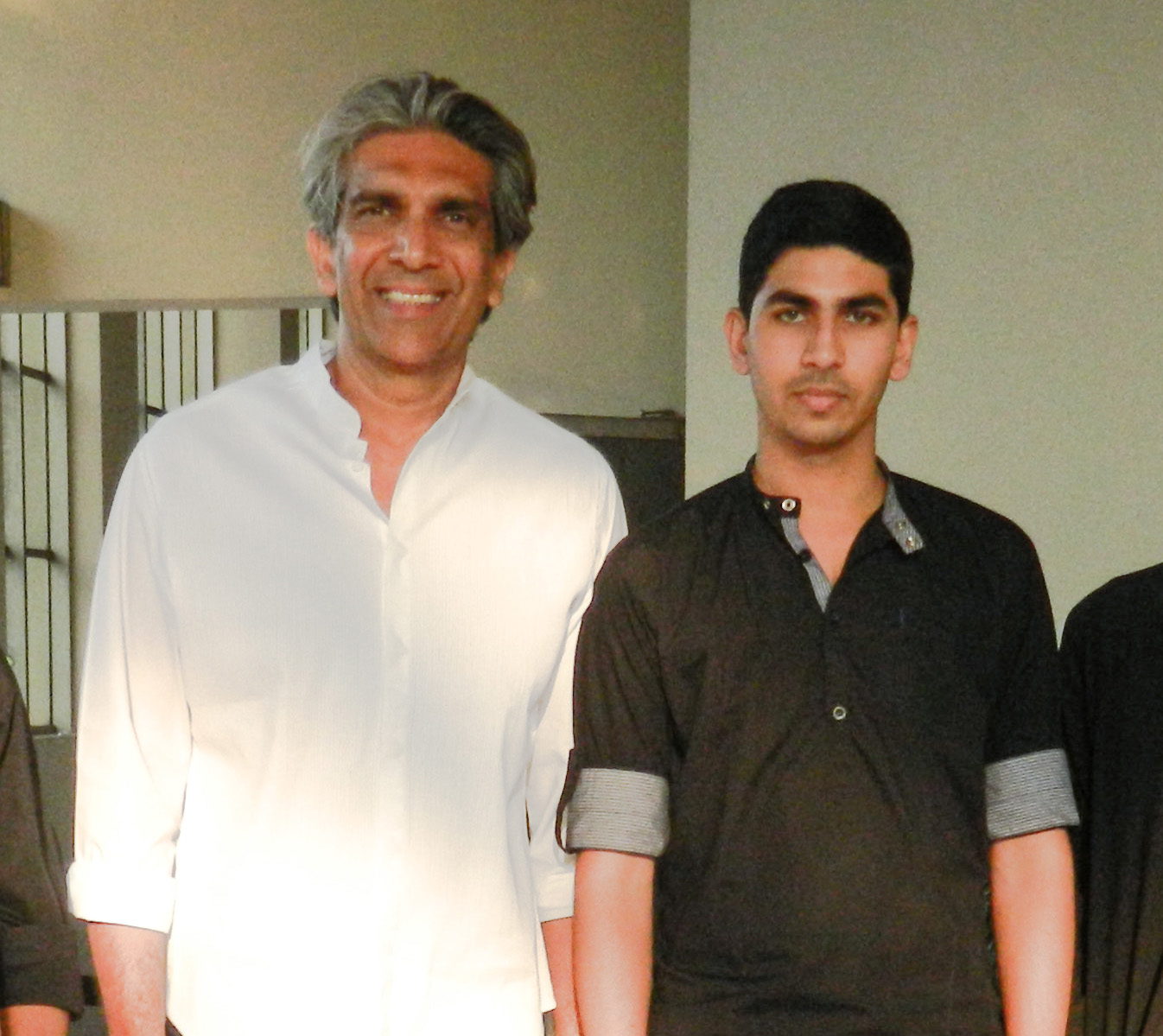 Bijoy Jain and Murshed Ahmed